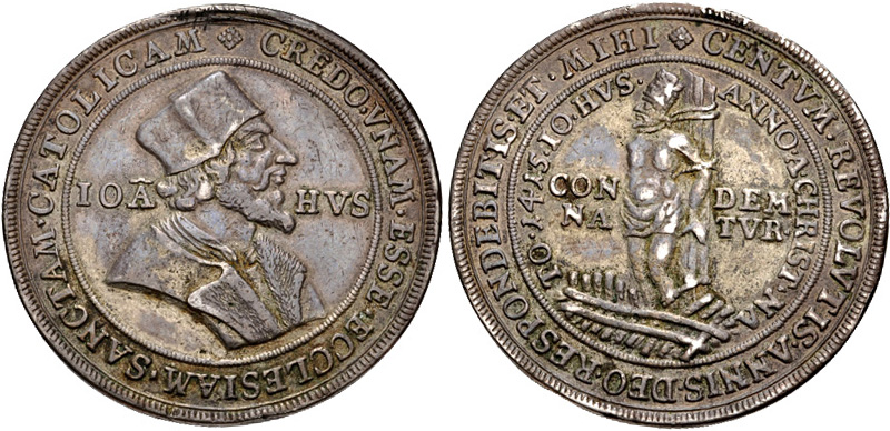 GERMANY, Christian Wermuth. fl. 1686-1739. Jan Hus. Circa 1369-1415. AR Medal (41mm, 21.54 g, 11h). Struck circa 1715-1739. (cross fleurée) CREDO • VNAM • ESSE • ECCLESIAM • SANCTAM • CATOLICAM, bust right, wearing camauro and canonical robes; IOA-HVS across field; Ω over A / (cross fleurée) CENTVM • REVOLVTIS • ANNIS • DEO • RESPONDEBITIS • ET • MIHI/ANNO • A • CHRIST • NA TO • 1415 • IO • HVS •, figure of Jan Hus left, bound to and burned at stake; CON-DEM/NA-TVR • in two lines across field. Donebauer 3455. VF, toned, traces of gilding.